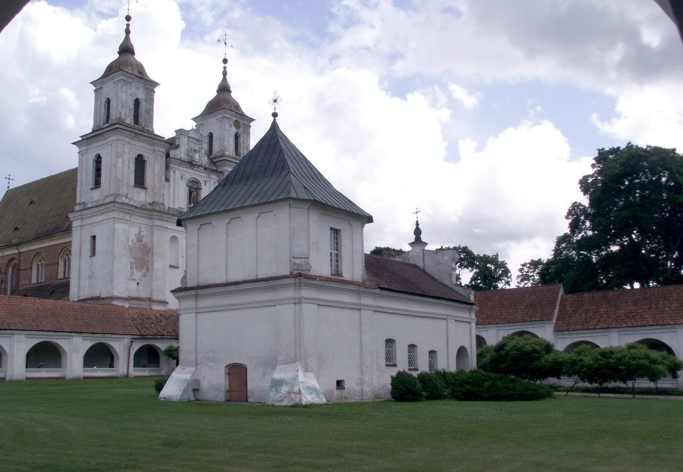 Tytuvėnai monastery